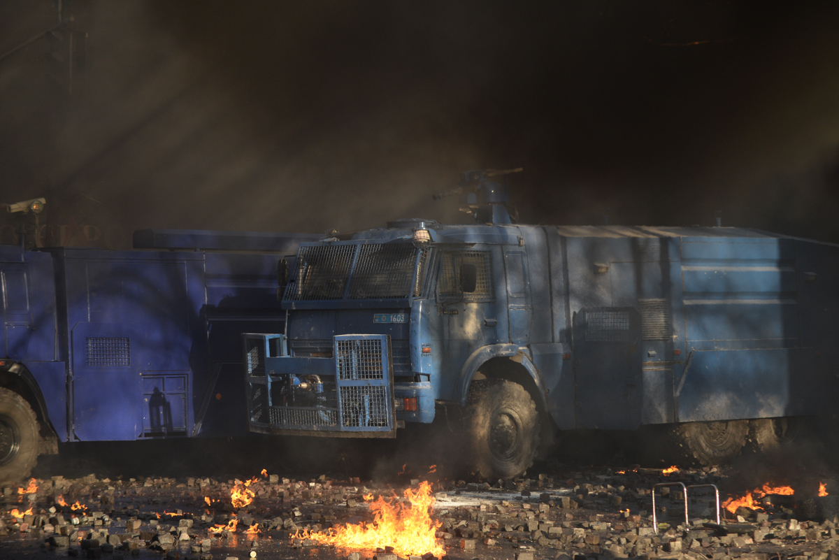 Water jets AVS-40 left by interior troops in the barricade line. Clashes in Kyiv, Ukraine. Events of February 18, 2014